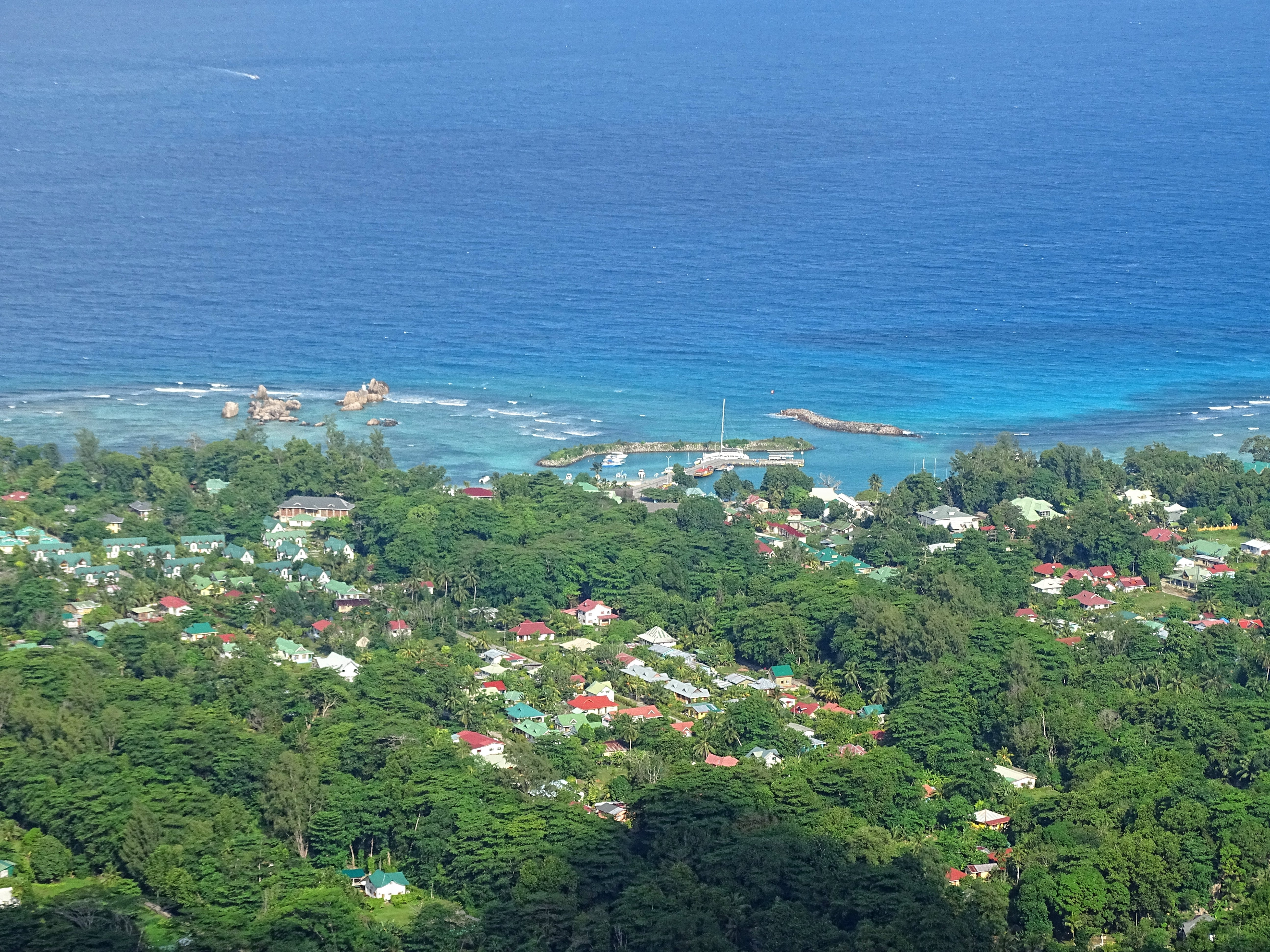 The administrative center on La Digue, La Passe, photographed from the top of the island.